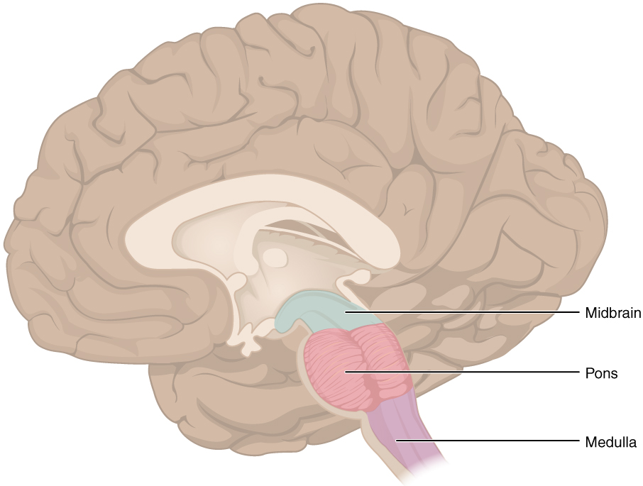 Version 8.25 from the Textbook OpenStax Anatomy and Physiology Published May 18, 2016